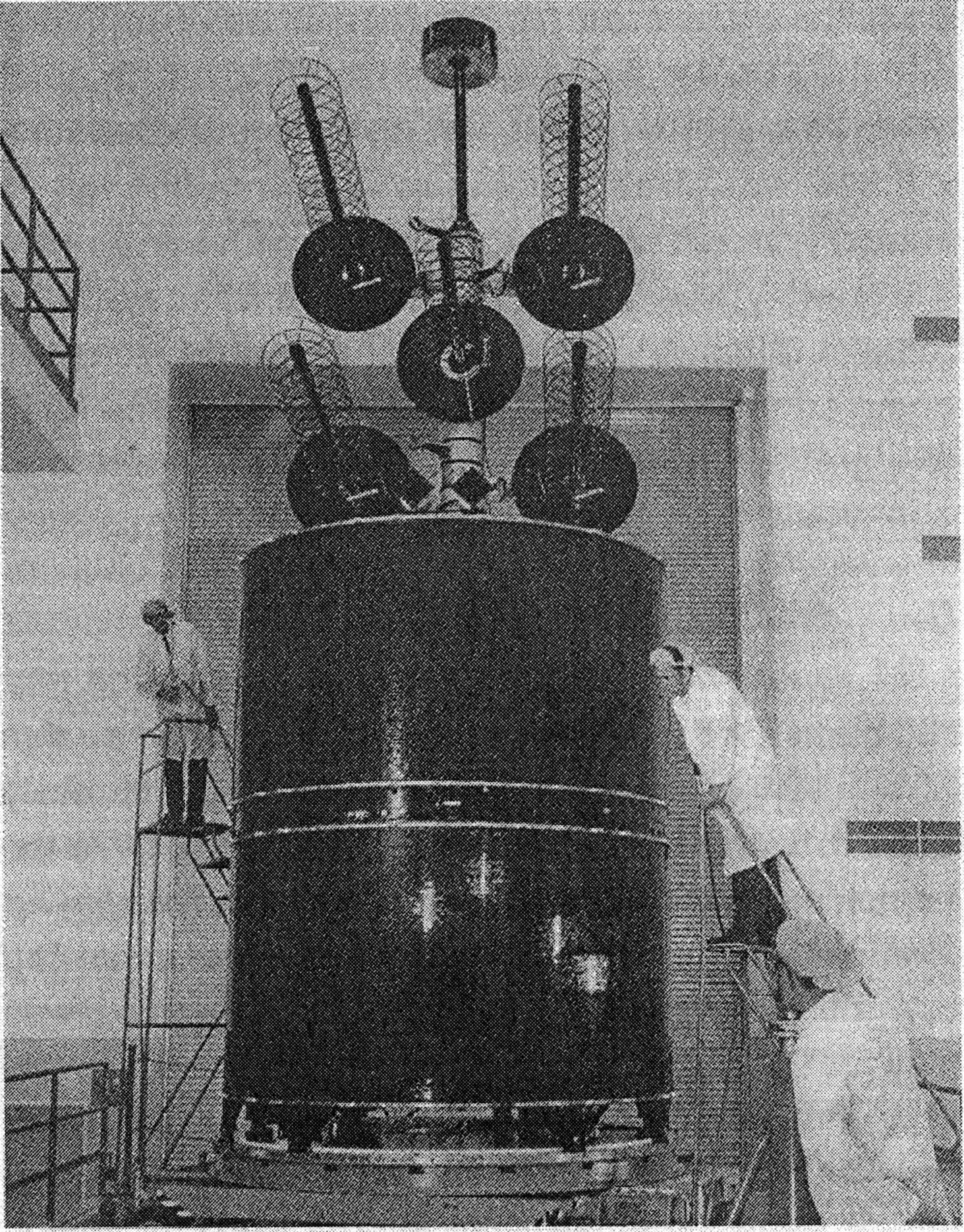 The TACOMSAT experimental communications satellite formed the basis for Hughes' later Intelsat IV series of communications satellites.